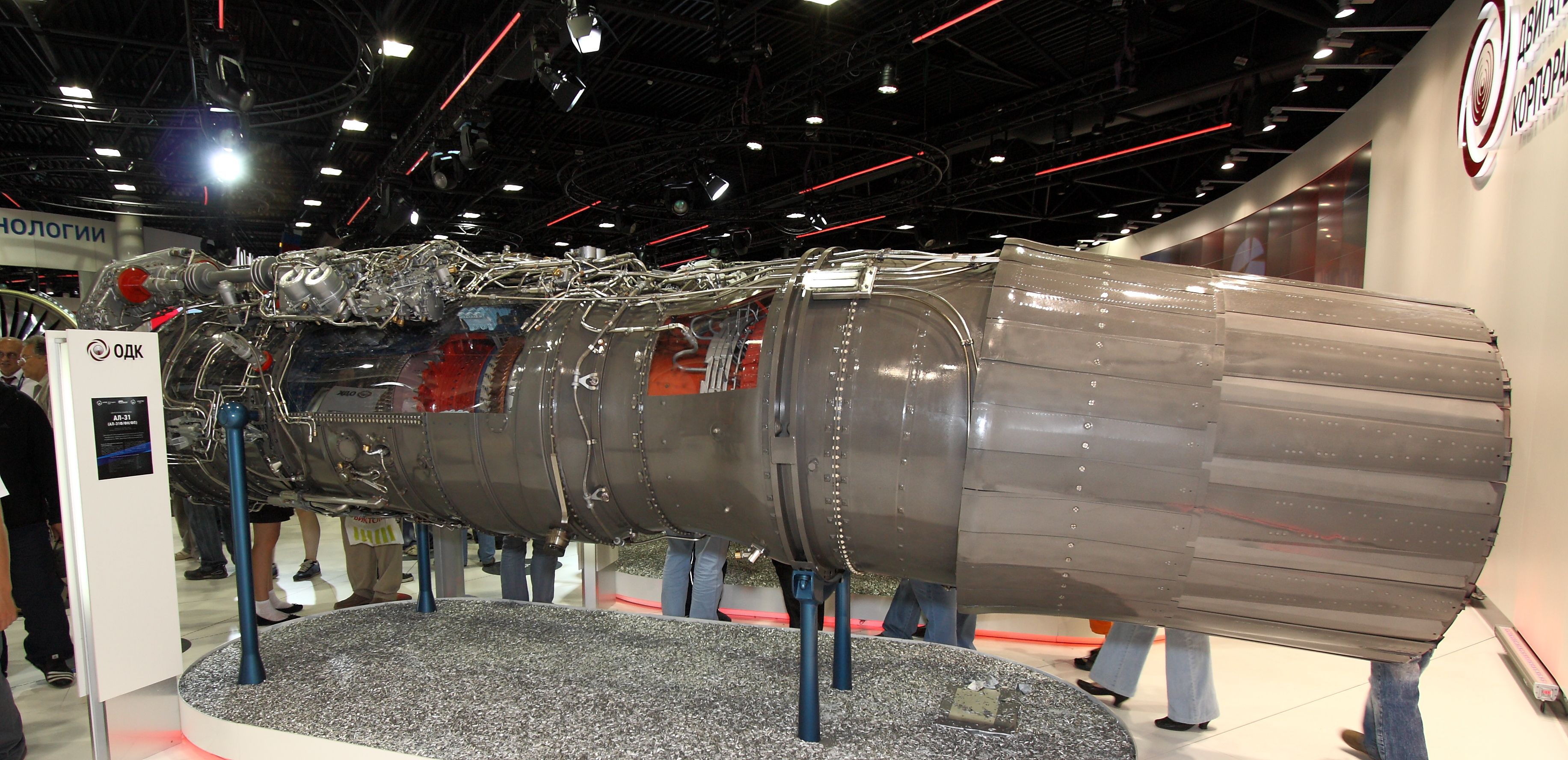 Jet engine AL-31 (The international aerospace salon MAKS-2011)